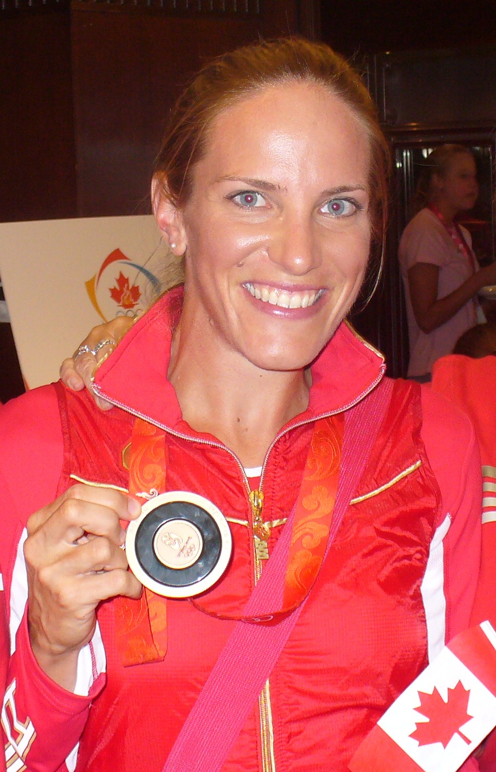 Melanie Kok, bronze medalist, 2008 Olympic Games Beijing.